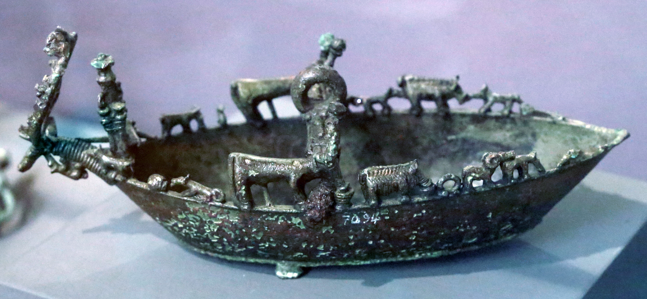 Nuragic art in the Museo archeologico nazionale (Florence)